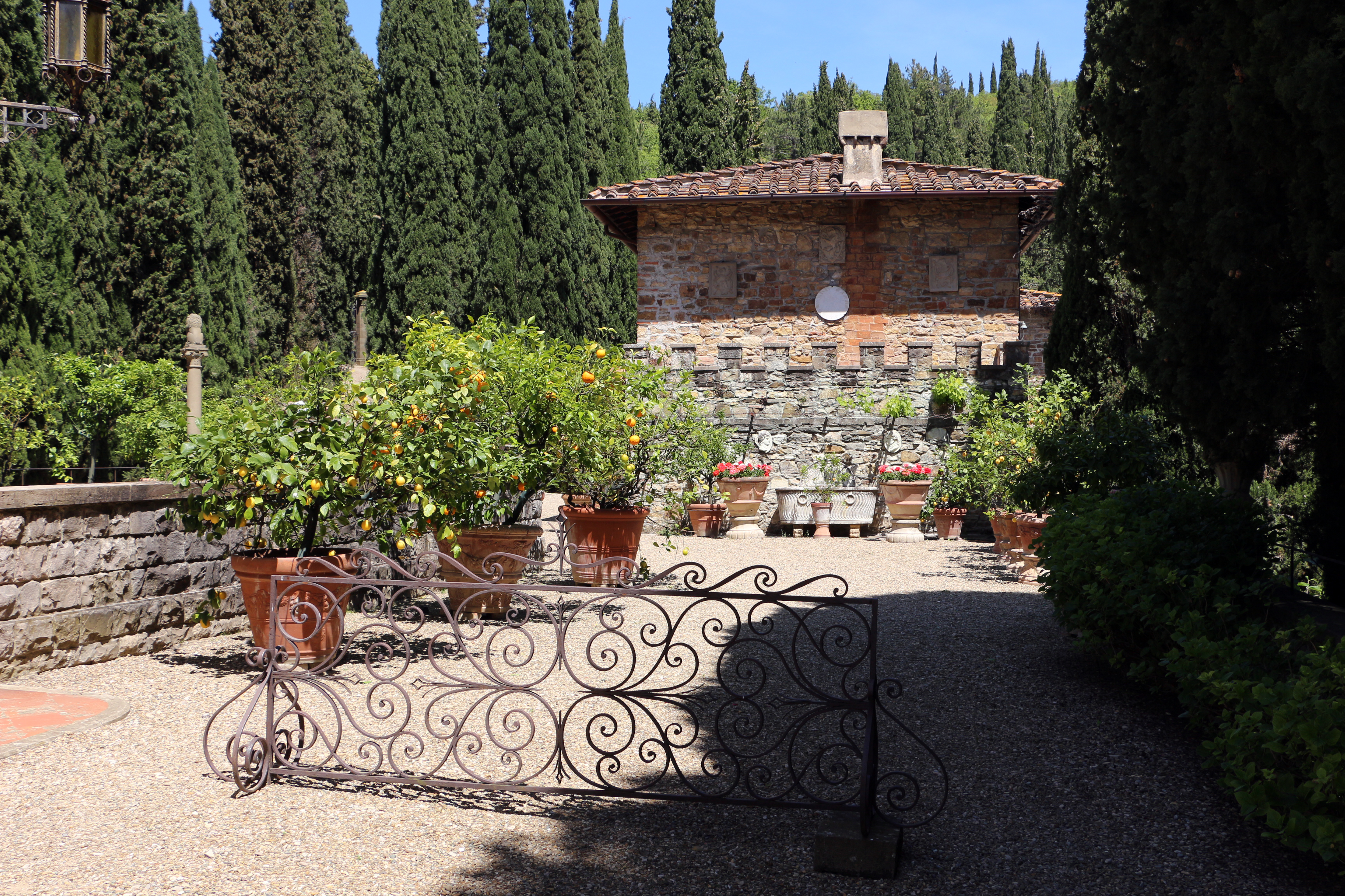 Villa Peyron di Fontelucente